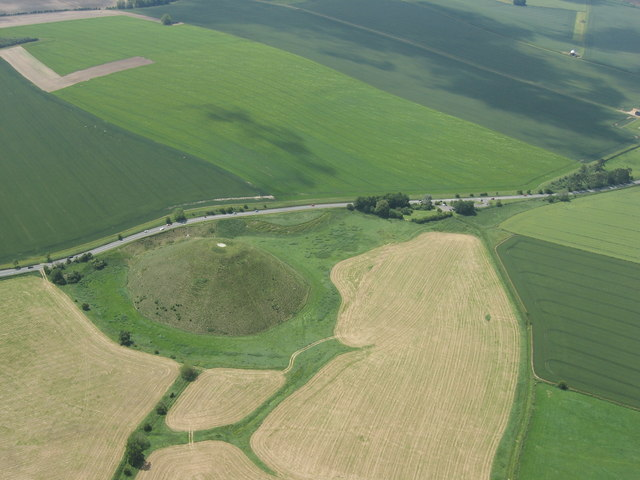 Silbury Hill, Wiltshire. Viewed from the rear seat of a microlight on a pleasure flight out of Yatesbury Field on the A4, Wiltshire.